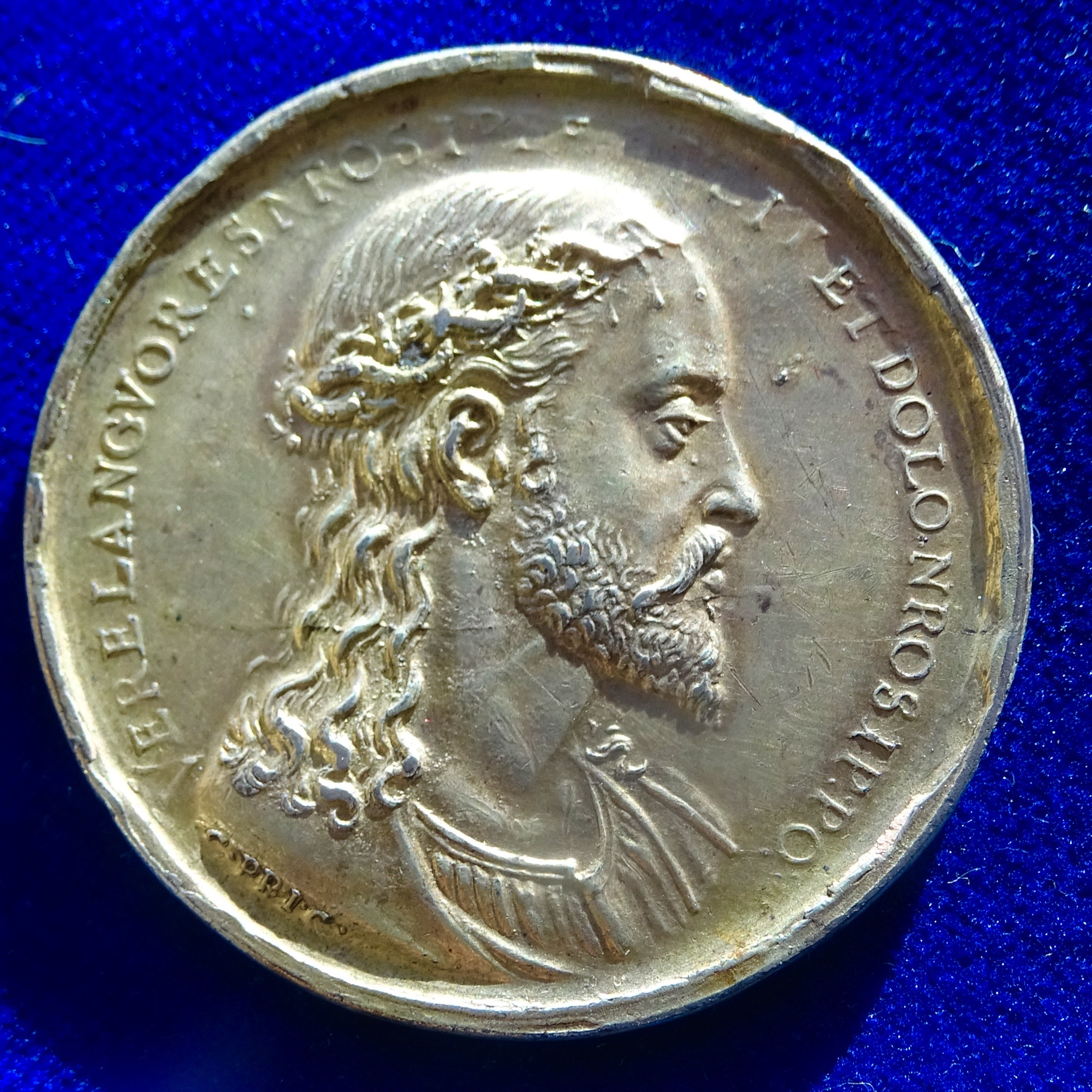 Old cast gilt wedding medallion d. = 46 mm. 30,76 g Ag. Portrait r. of Jesus Christ with crown of thorns, curved above: "VERE LANGVORES NROS IPSE TVLIT ET DOLO NROS IP. PO."/ An angel marrying a couple clothed in 16th century style, curved above: "EIN VERNVNFFTIG WEIB KOMPT VOM HERRN *". 2 lines on plate below: "FATO CONV BIA FIVNT·". In exergue: "PROXIX TOBXII CVM IRIVILEGIE VM". Cahn, Kunstmedaillen und Plaketten des XV. bis XVII. Jahrhunderts Frankfurt 1912 No. 91. Habich 209,8. Medallist: VM (Valentin Maler), Mint-master in Nürnberg, about 1540 - 1603 Condition: EXCELLENT old cast.